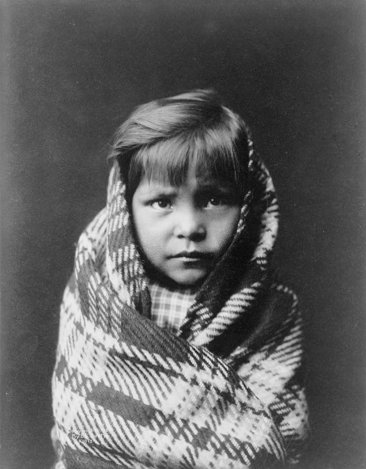 "Navaho child". A search of the online version of The North American Indian by Edward S. Curtis using that description indicates that this particular photo is not included within that collection. As per the Library of Congress regarding the Edward S. Curtis Collection, "about two-thirds (1,608) of these images were not published in Curtis's multi-volume work, The North American Indian."